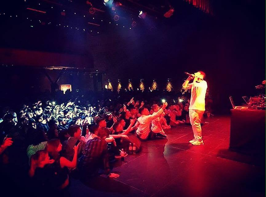 Rajku during his concert in Denmark (2016)